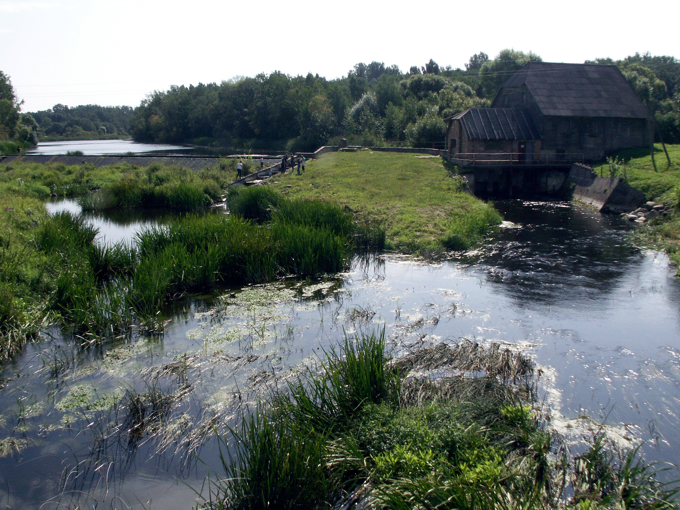 Hydroelectric power plant in Rudikiai, Akmenė district, Lithuania